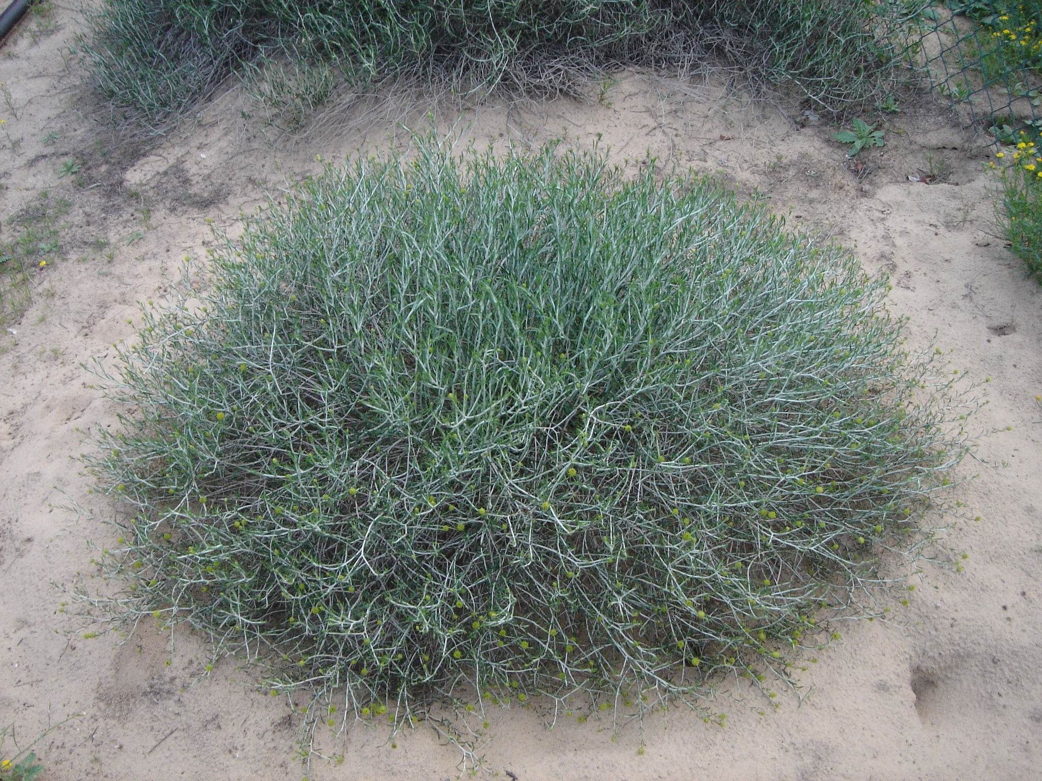 It's our national flower and it's on the verge of being extinct! Thank God for the Seed Bank in the UK. Public message: STOP CAMPING!